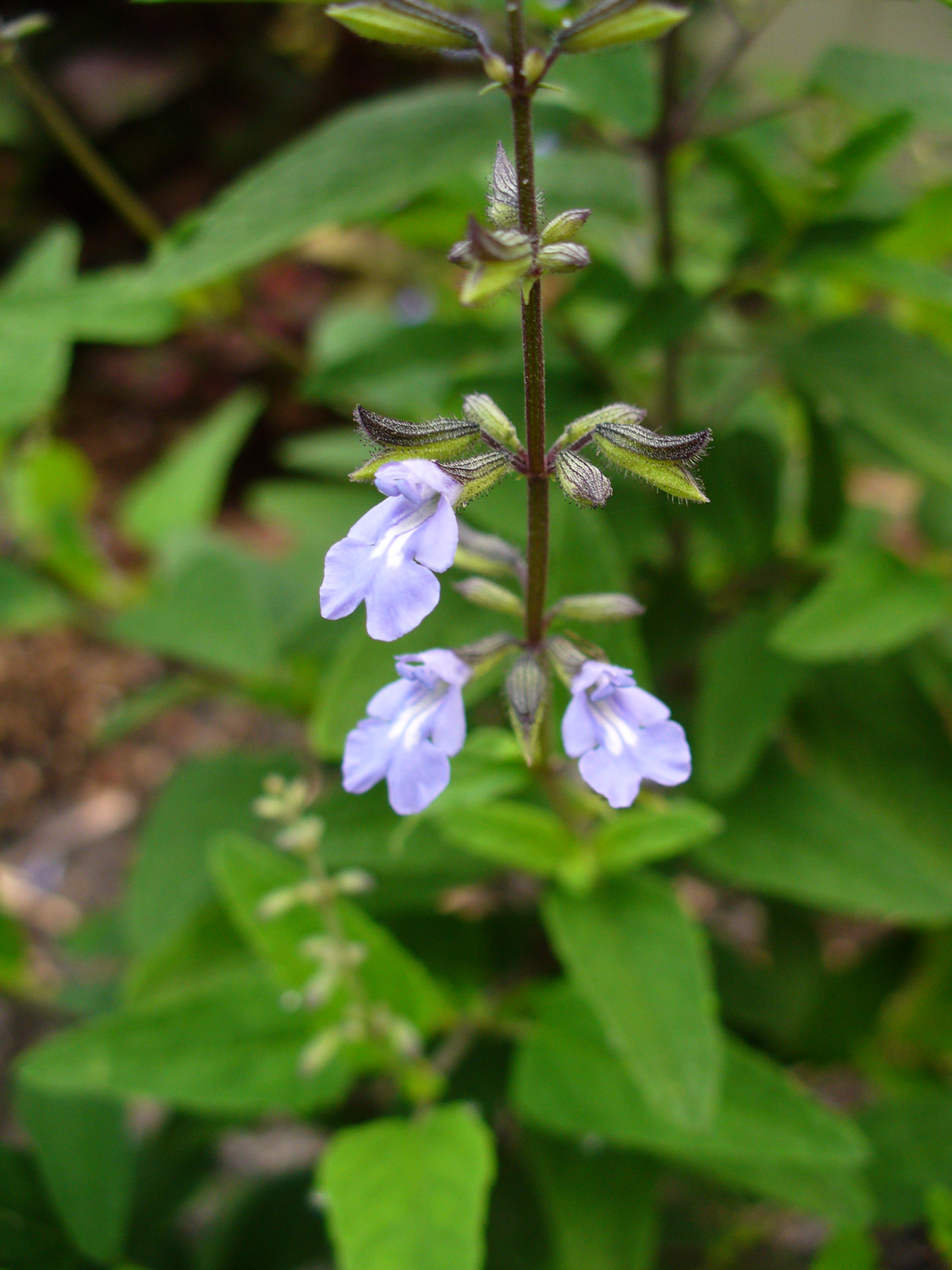 South Miami, Florida, USA